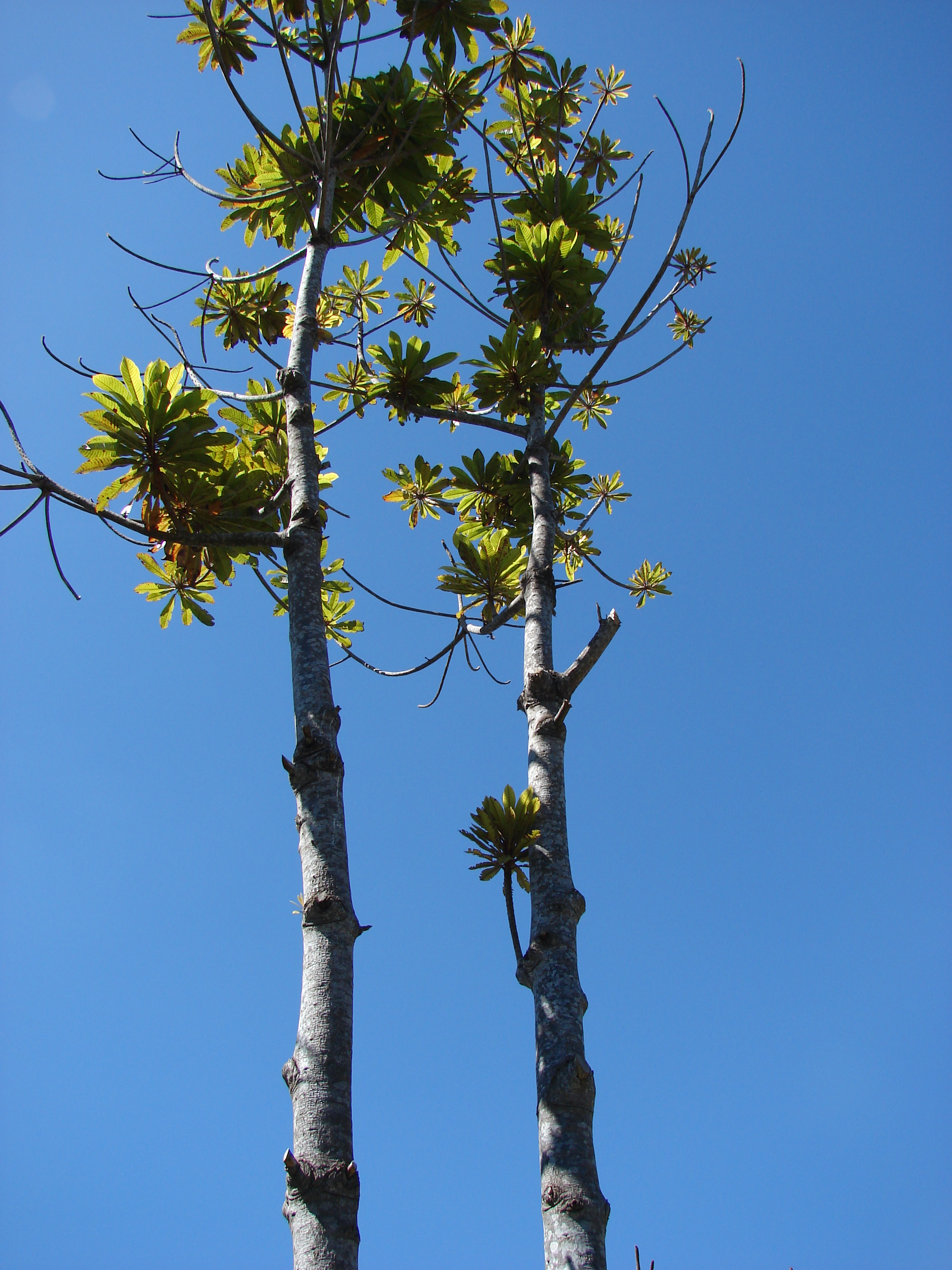 Dillenia indica (habit). Location: Maui, Enchanting Floral Gardens of Kula